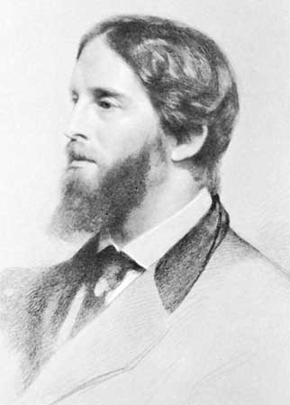 Francis Turner Palgrave